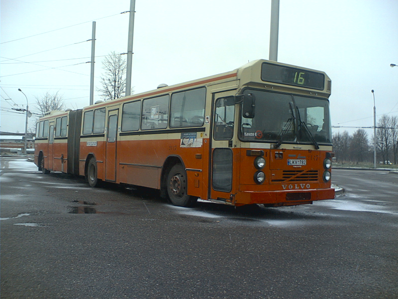 Kaunas city bus (four star class). Säffle bus (#2147, reg. LKV 782) with Volvo B10MA-55 chassis in Lithuania. Built 1984, UAB Kauno autobusai operator.